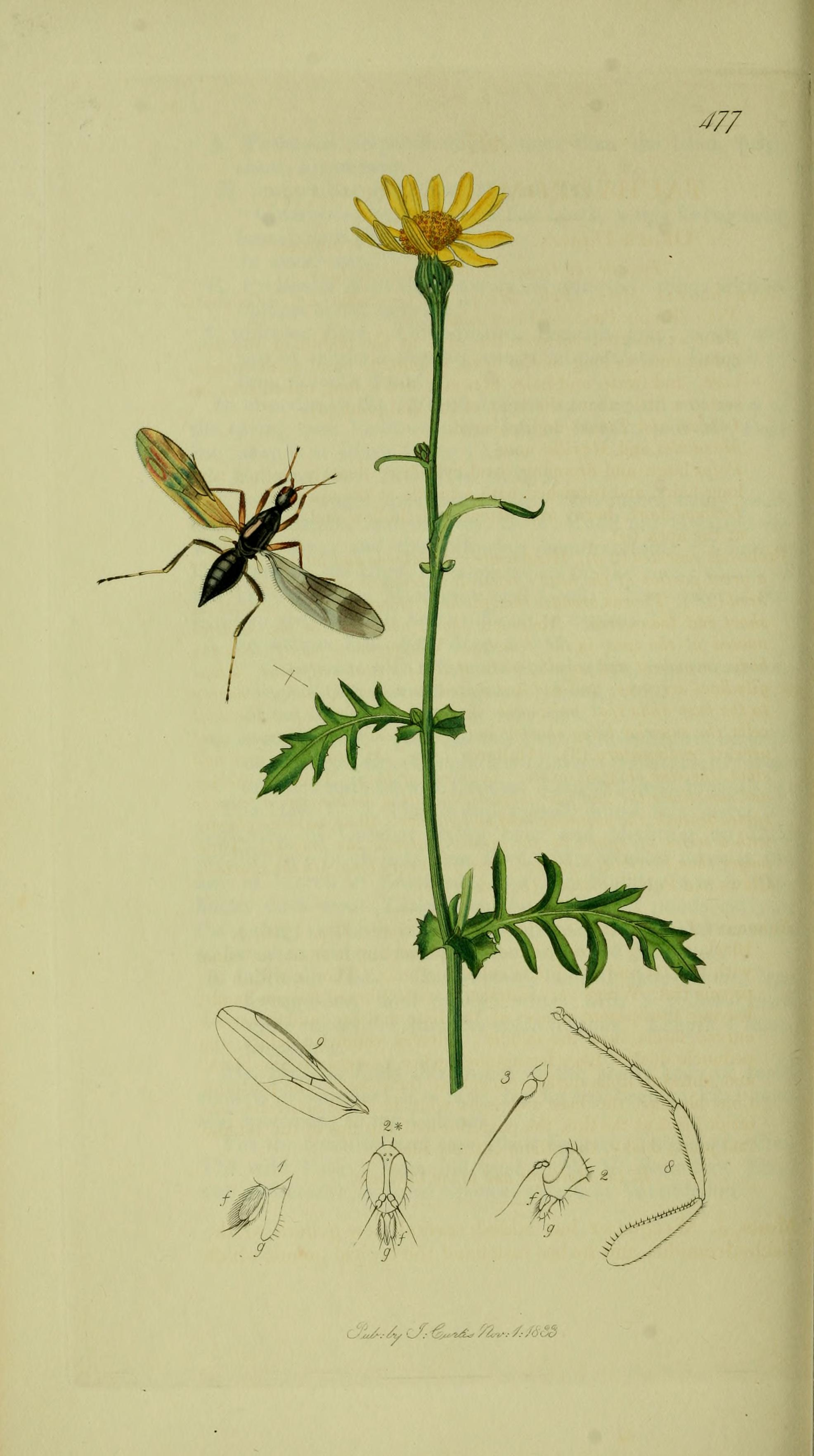 John Curtis British Entomology (1824-1840) Folio 477 Diptera:Tachydromia arrogans (Black-banded Tachydromia)The plant is Senecio squalidus (Inelegant Rag-wort).